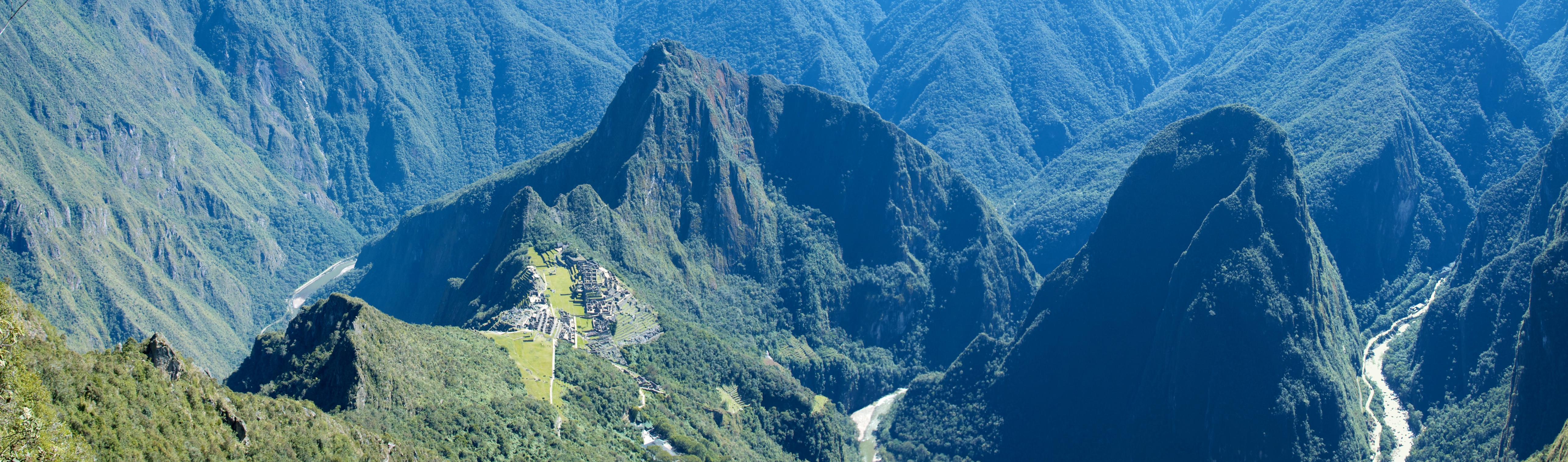 The peeks and valleys surrounding Machu Picchu like a wreath are almost more beautiful and awing than the site itself. It is lush and rugged terrain with the Urubamba River weaving drunkenly through. From Machu Picchu Mountain you can really get a sense of the high protected plateau Machu Picchu was built on and how remote and inaccessible the site is. It is simply gorgeous country.